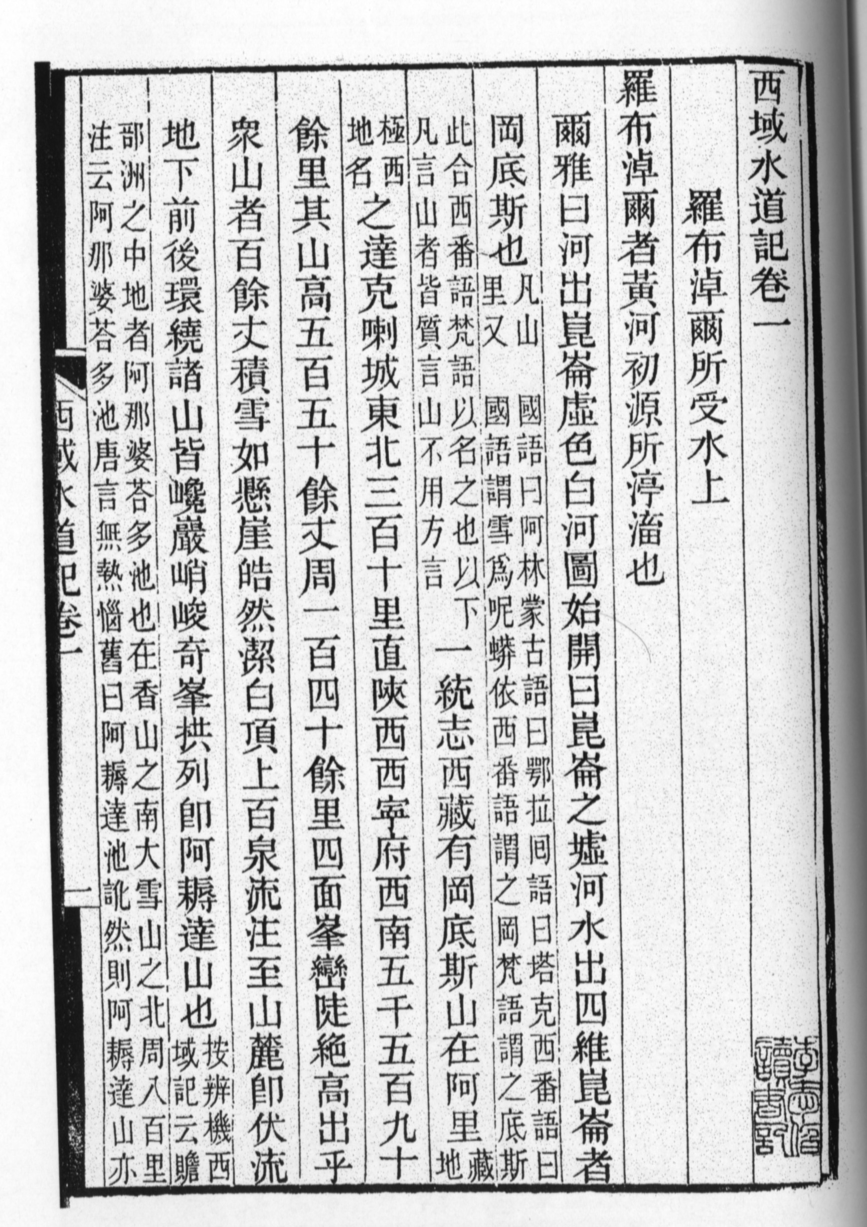 Waterways of Western Region, published in 1829